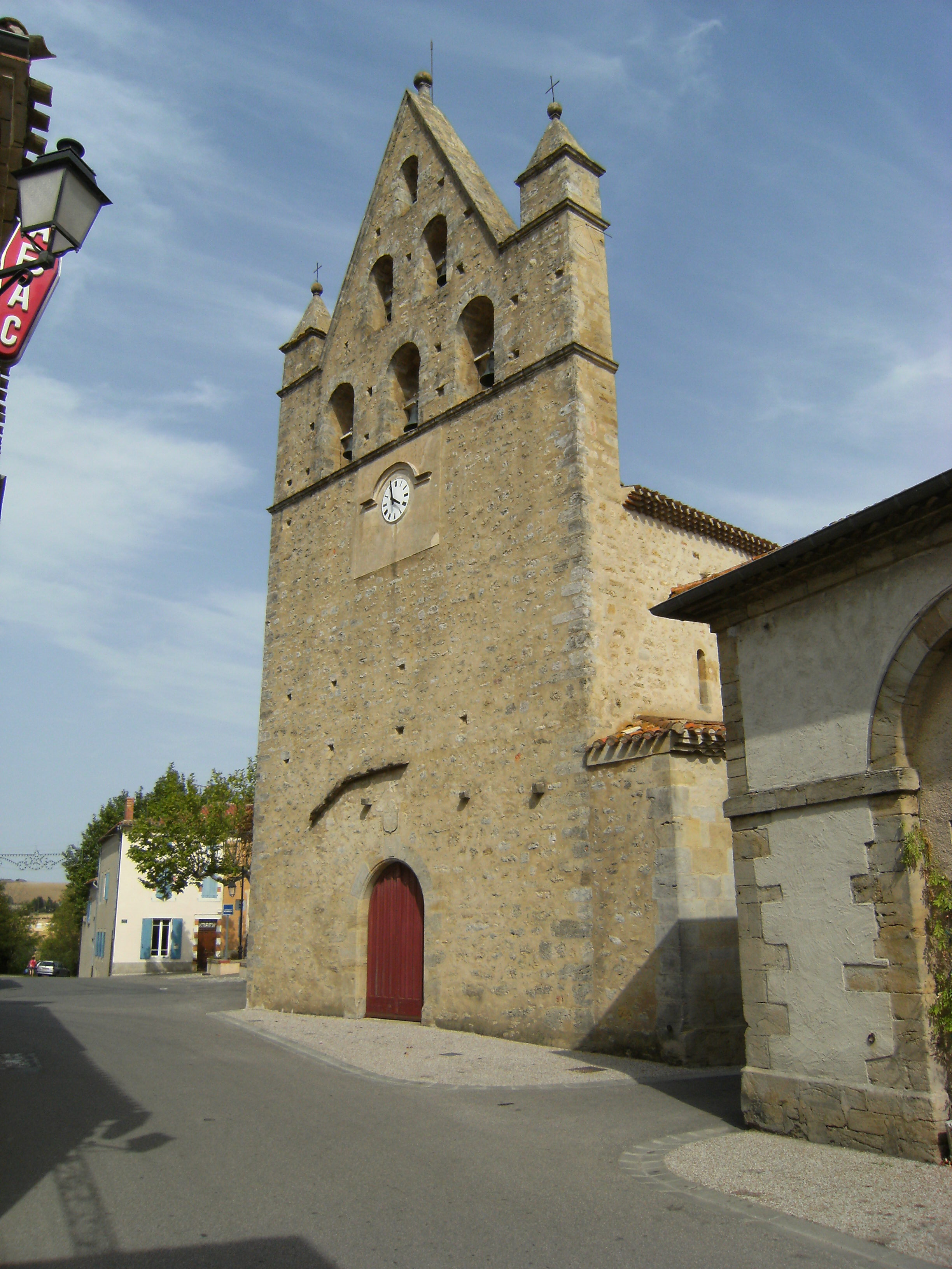 Facade of the church at the main junction in Salles-sur-l'Hers, Aude.